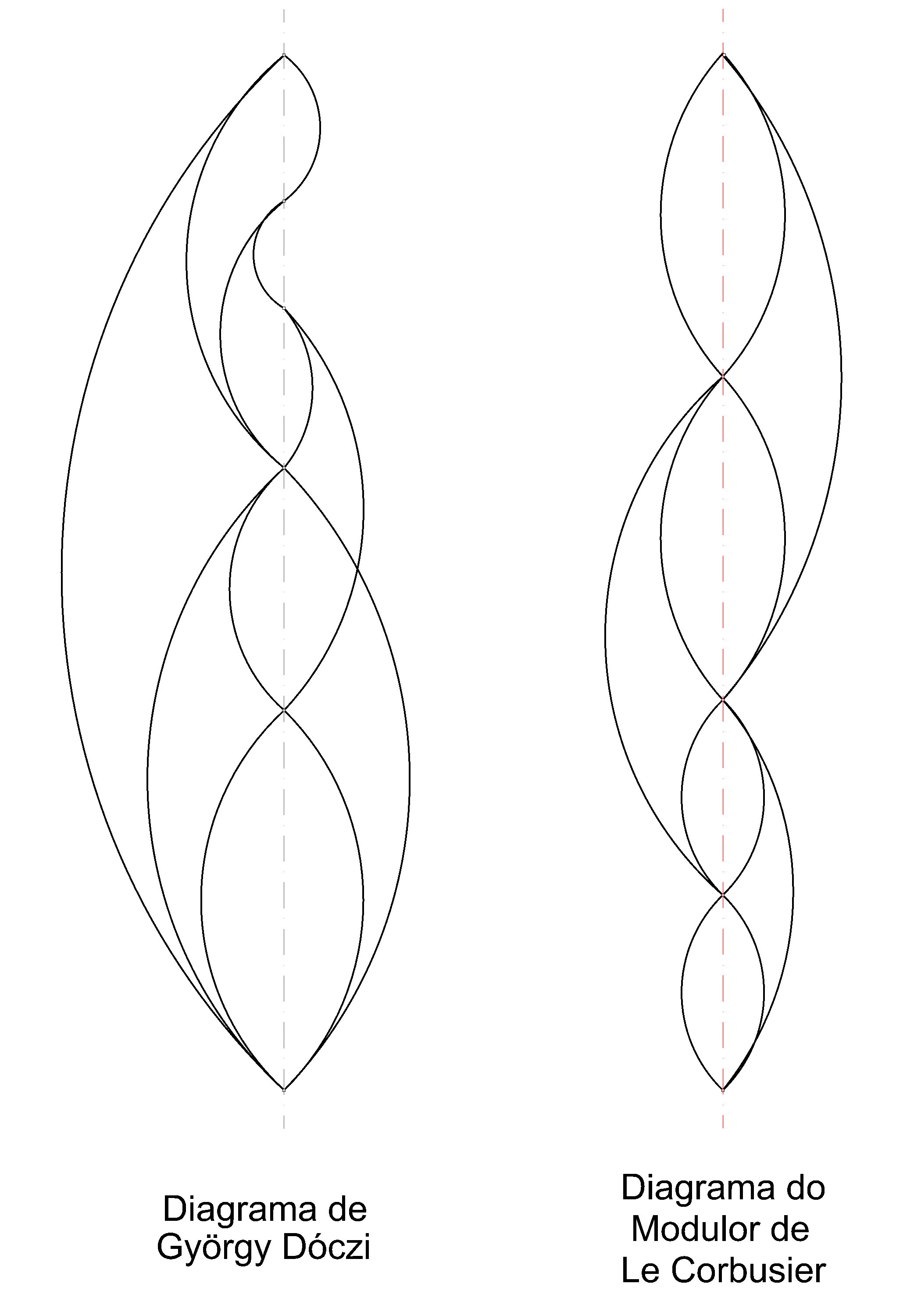 Diagrams Gyorgy Doczi and Corbusier